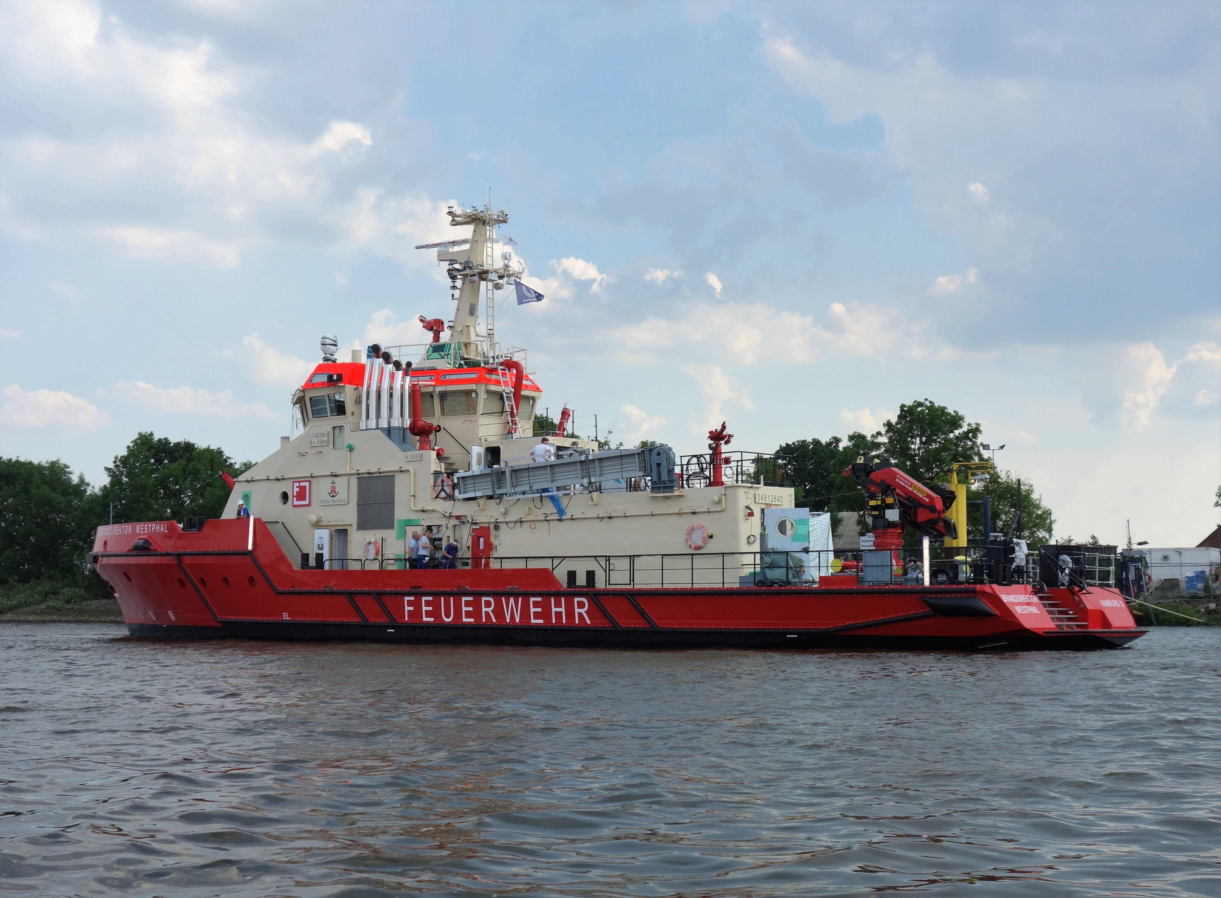 Branddirektor Westphal, the new fire boat of Hamburg at Fassmer shipyard